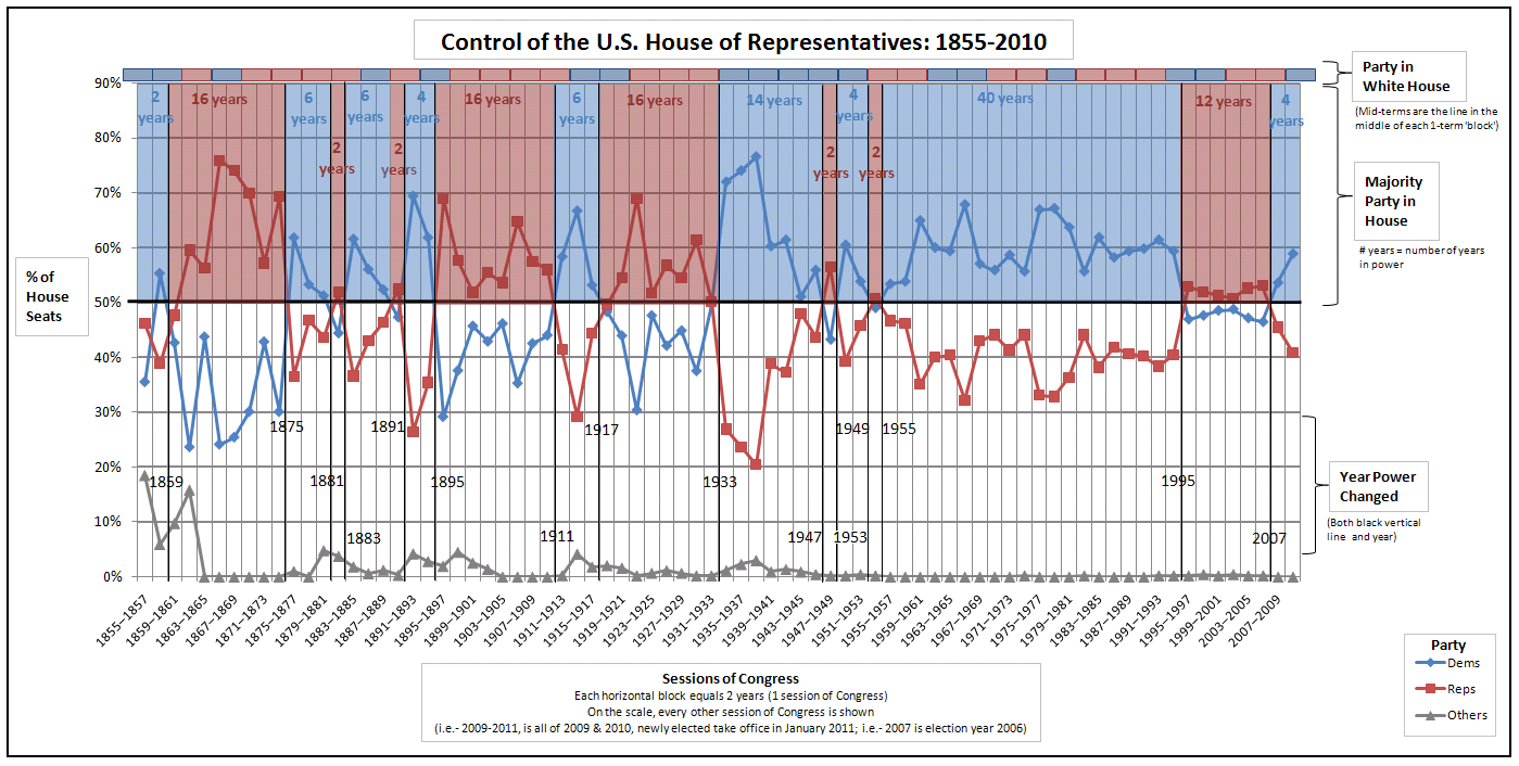 Graph of Control of the U.S. House of Representatives